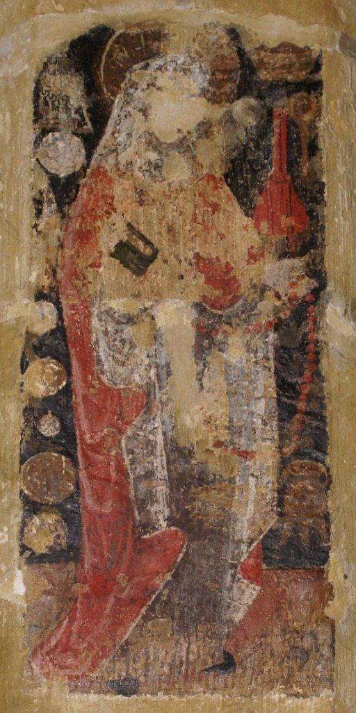 Church of England parish church of St Etheldreda, Horley, Oxfordshire: 15th century painting of St Zita of Lucca.